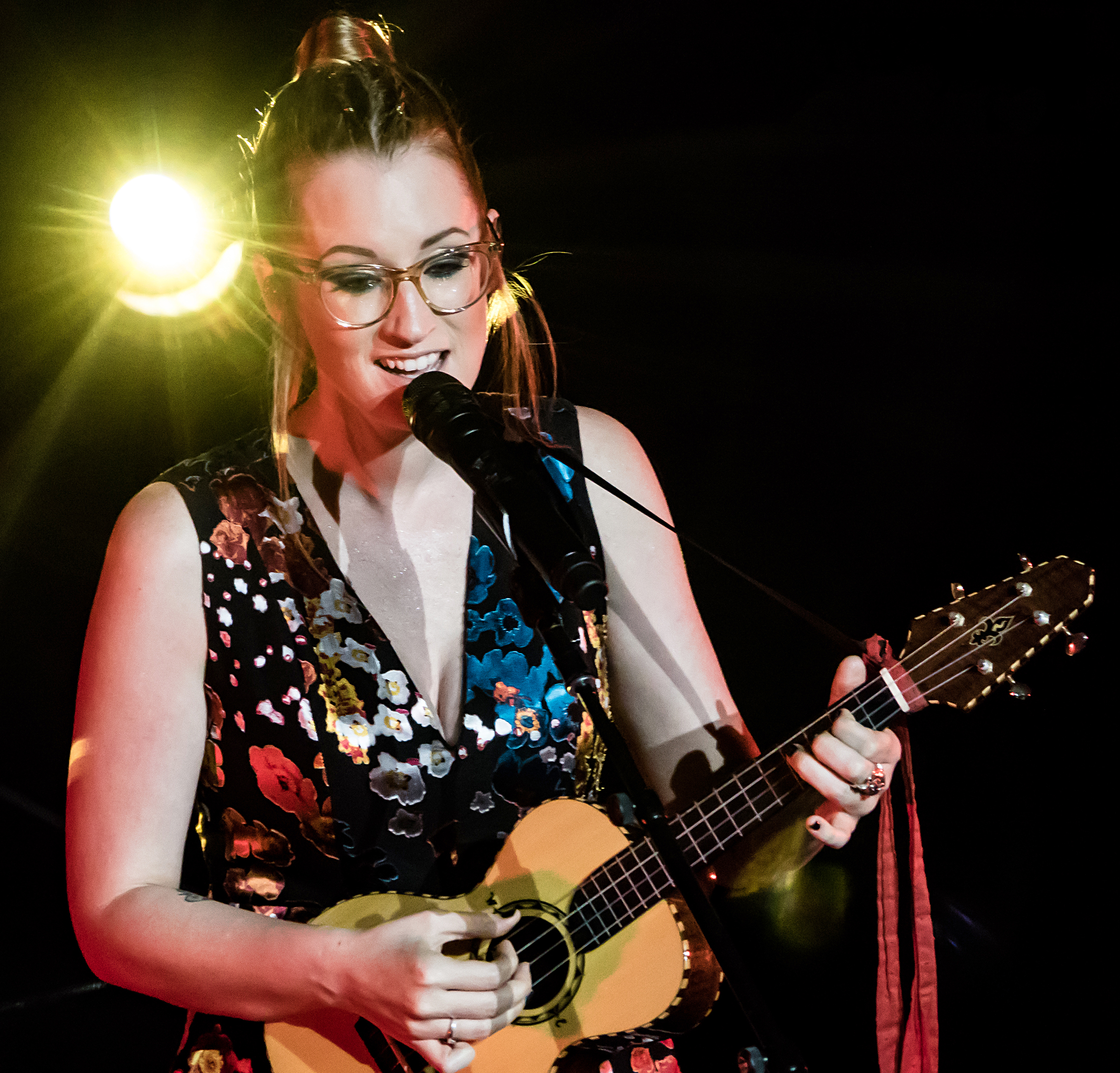 Ingrid Michaelson performing live at the Theatre at Ace Hotel in downtown Los Angeles, California, on Wednesday, October 26, 2016. Part of Ingrid's "Hell No" tour.